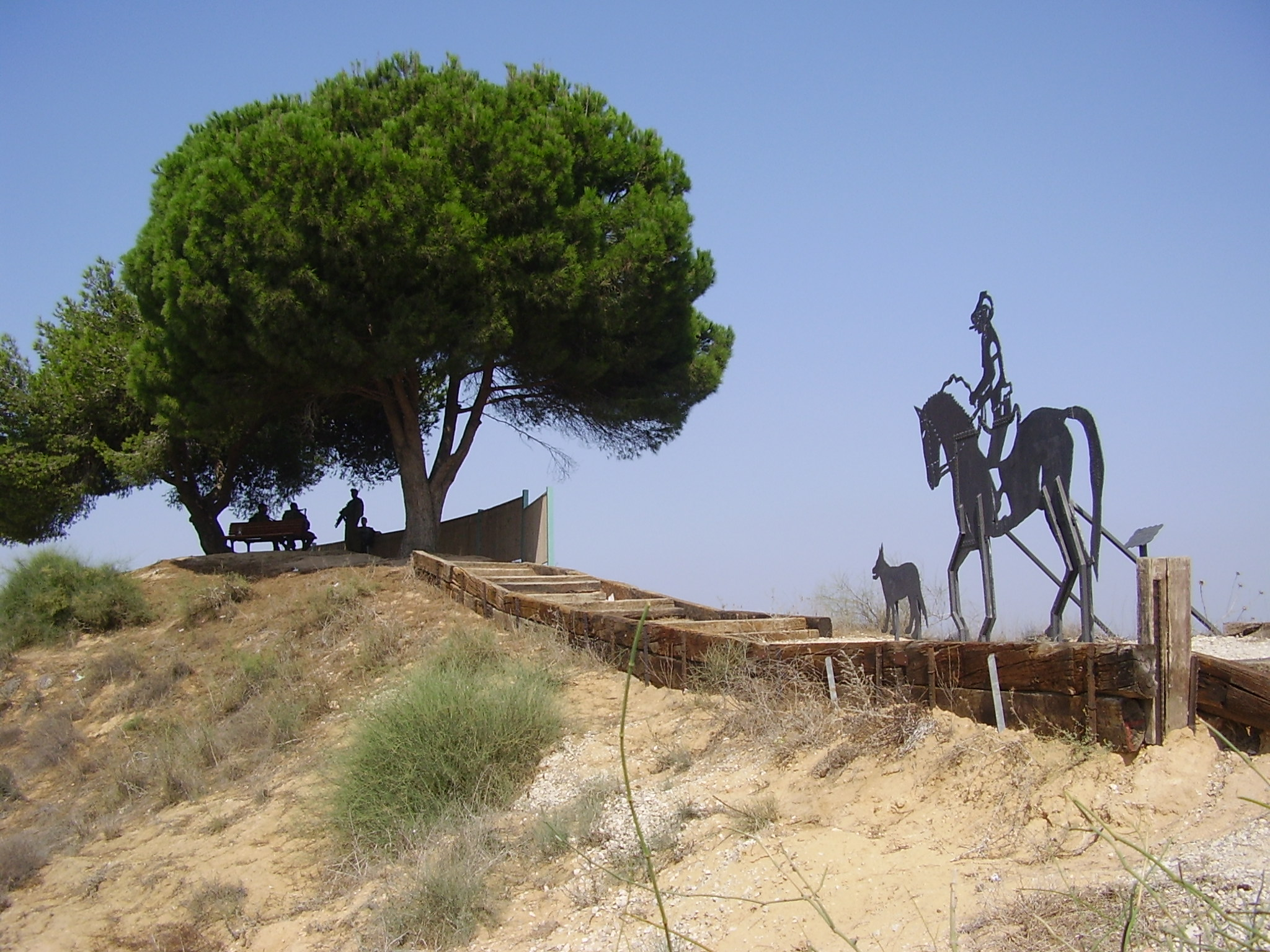 horseman hill near kibbutz nir-am גבעת הפרש ליד קיבוץ ניר עם